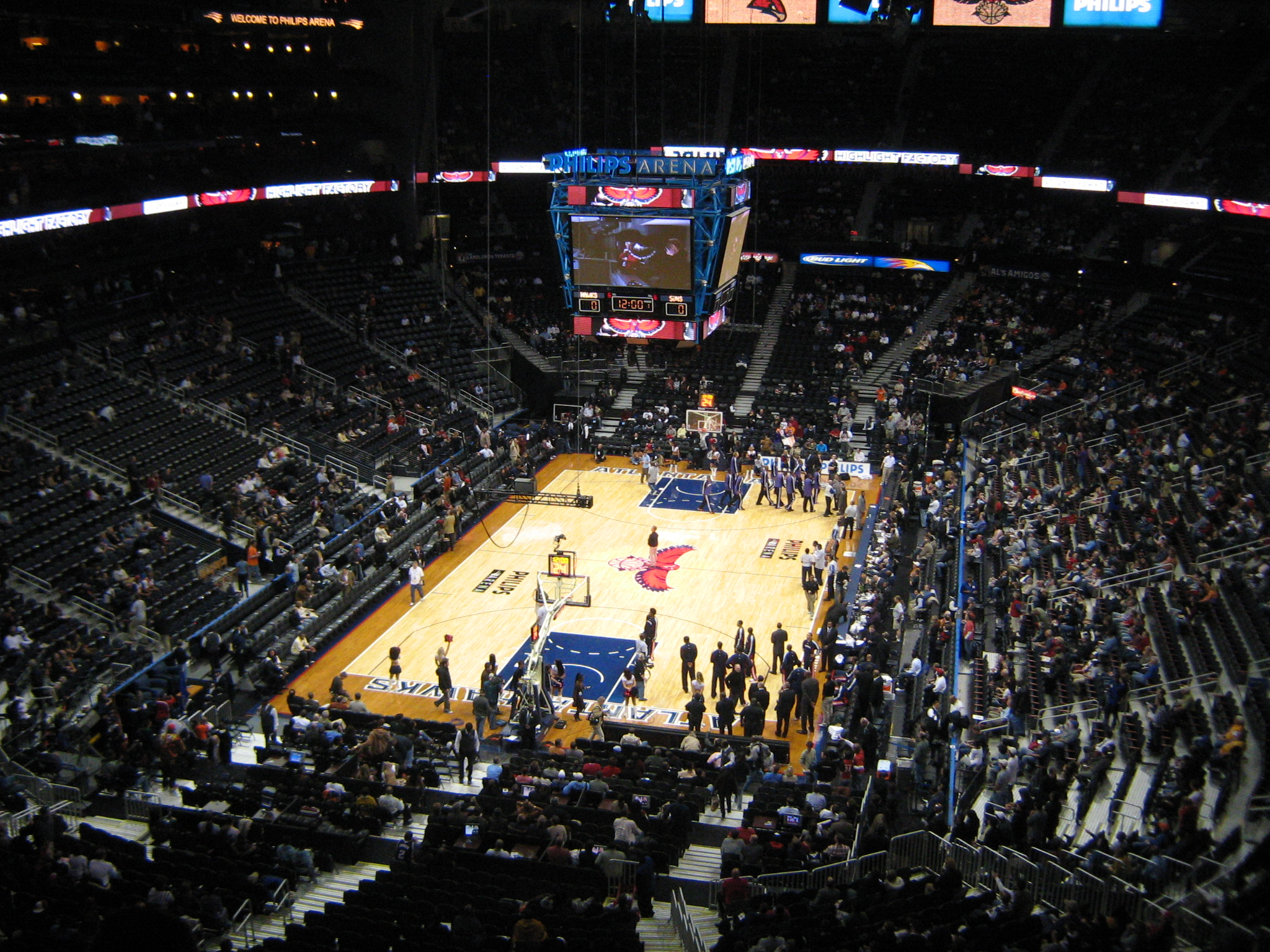 Philips Arena in Atlanta in basketball setup